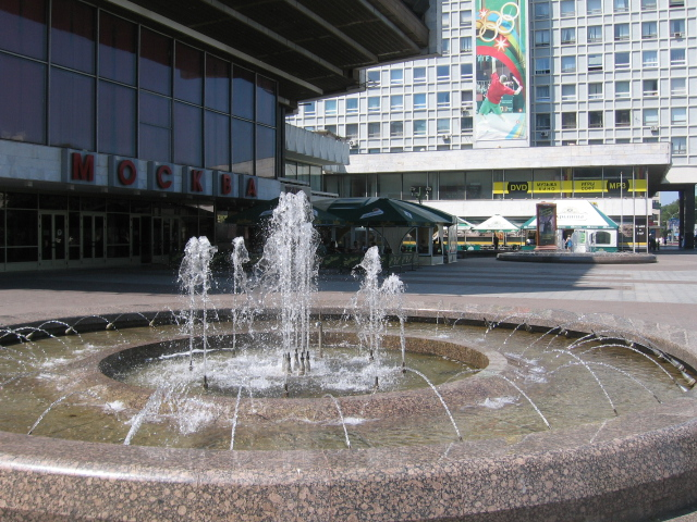 Козле кинотеатра "Mосква"